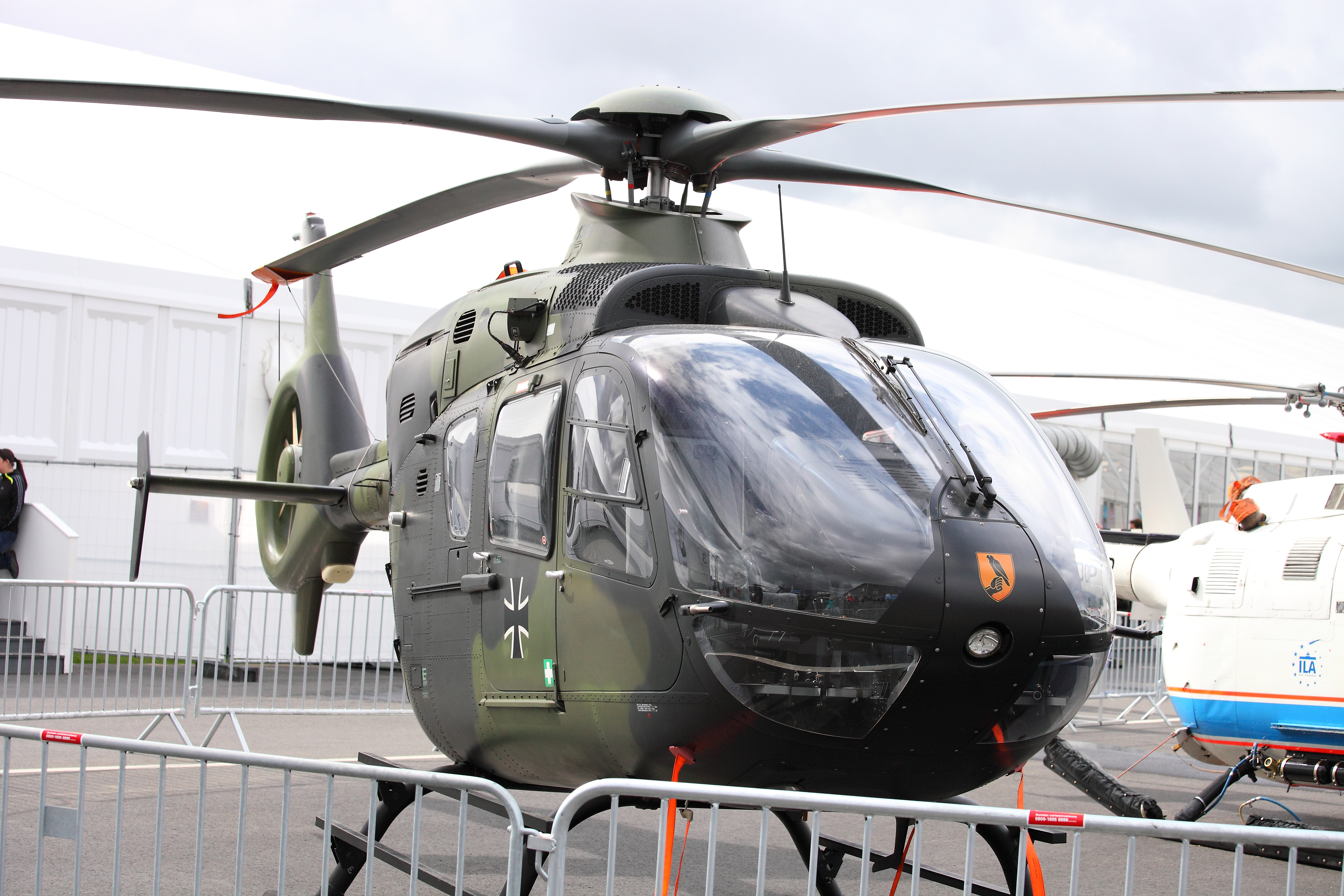 ILA Berlin Air Show 2012